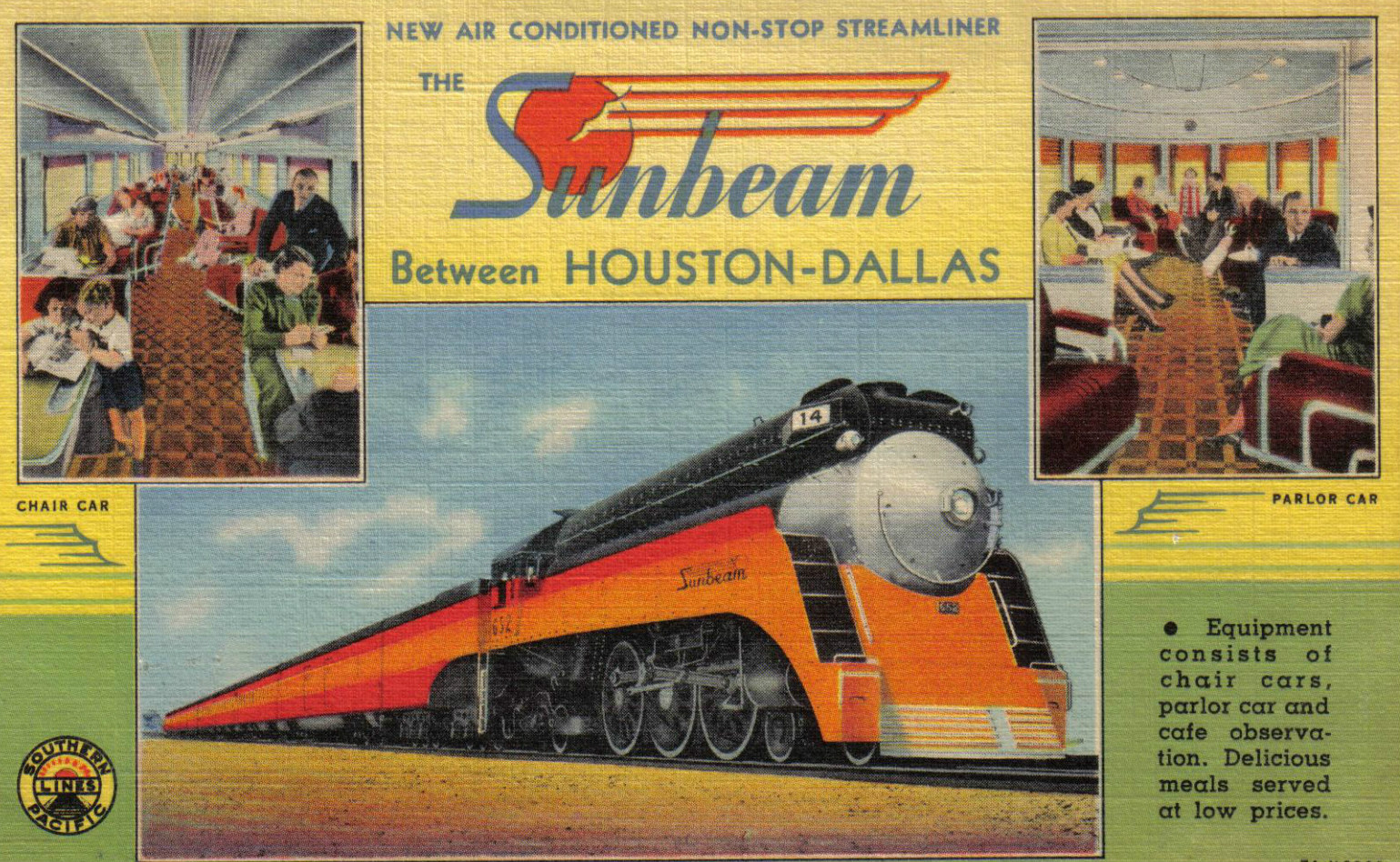 Postcard depiction of the Southern Pacific Train "The Sunbeam" which traveled between Dallas and Houston.